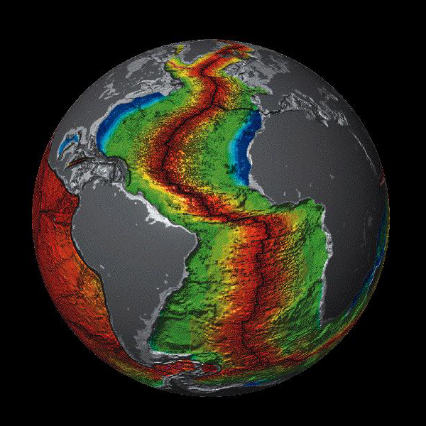 Age of oceanic crust. (See also Image:Earth seafloor crust age 1996.gif) Source: Excerpted from ; original upload in english wikipedia 31 March 2005 by User:SEWilco Image:Earth seafloor crust age poster.gif